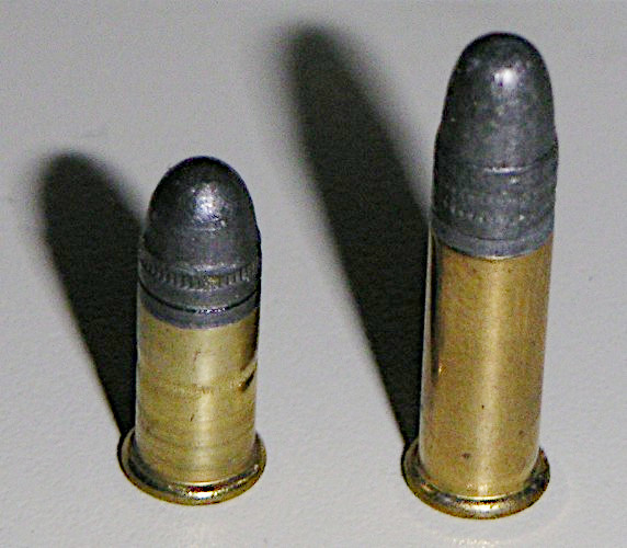 .22 short vs. .22 long rifle. Taken May 31, 2006.